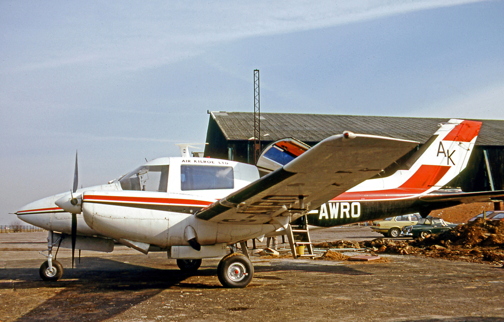 Beagle 206 Series 2 G-AWRO of Air Kilroe at Manchester Airport in 1979